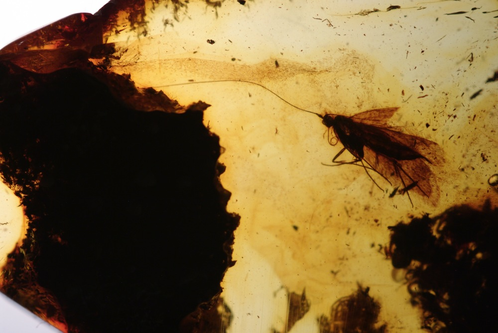 female in Baltic amber